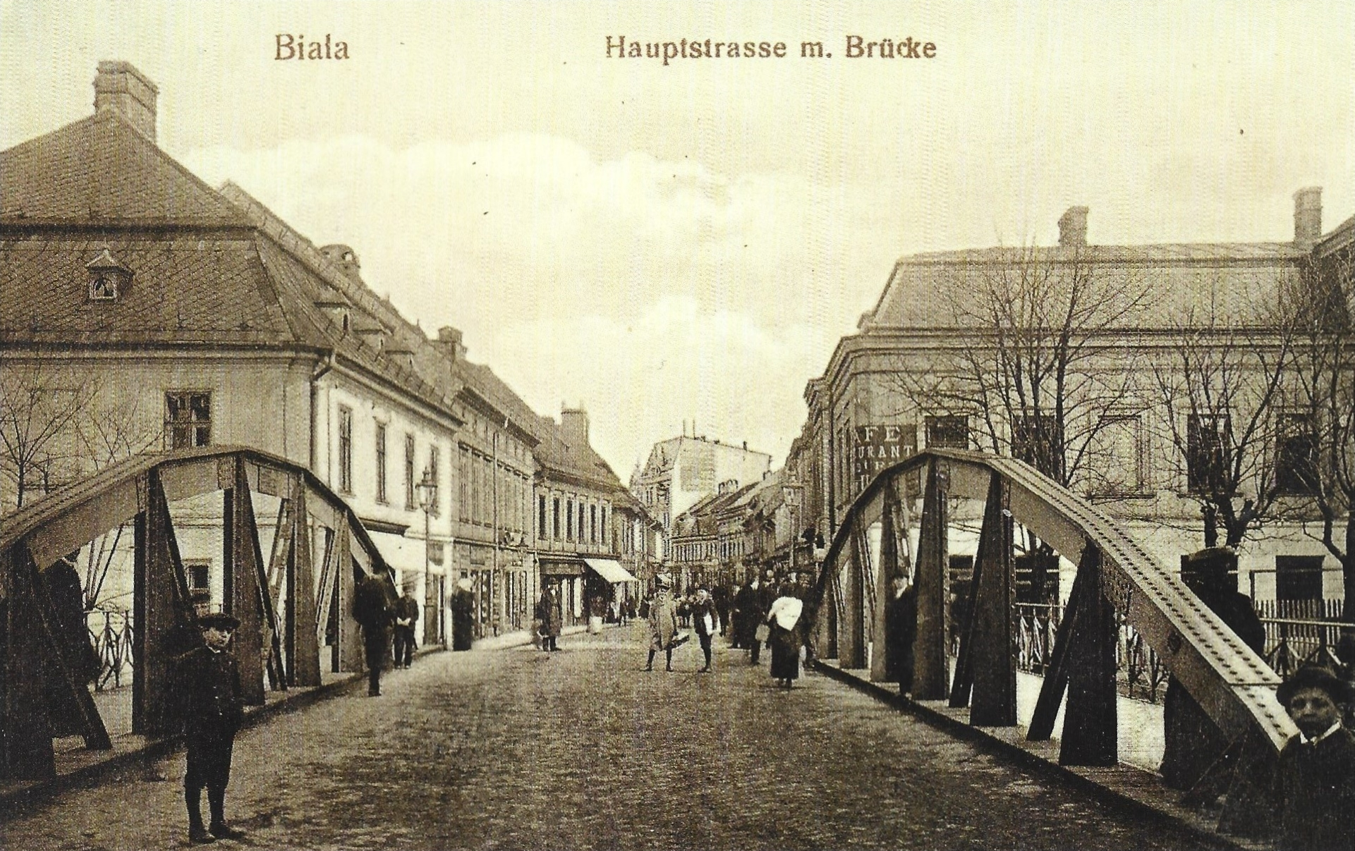 Bielsko-Biała, Poland. 11 Listopada Street. View from bridge over Biała River to east in 1907.